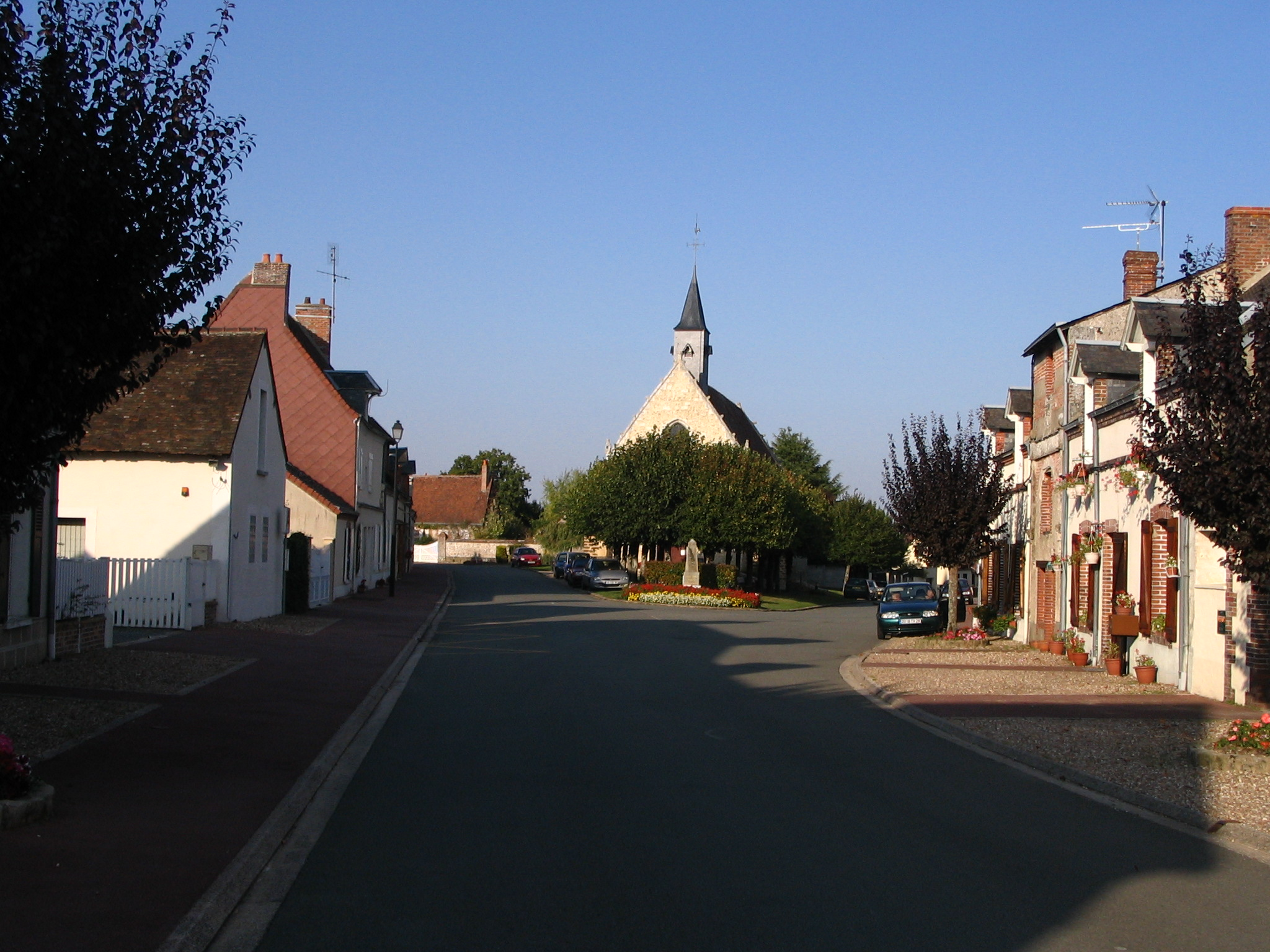 The main street of Saint-Pellerin, Eure-et-Loir, France